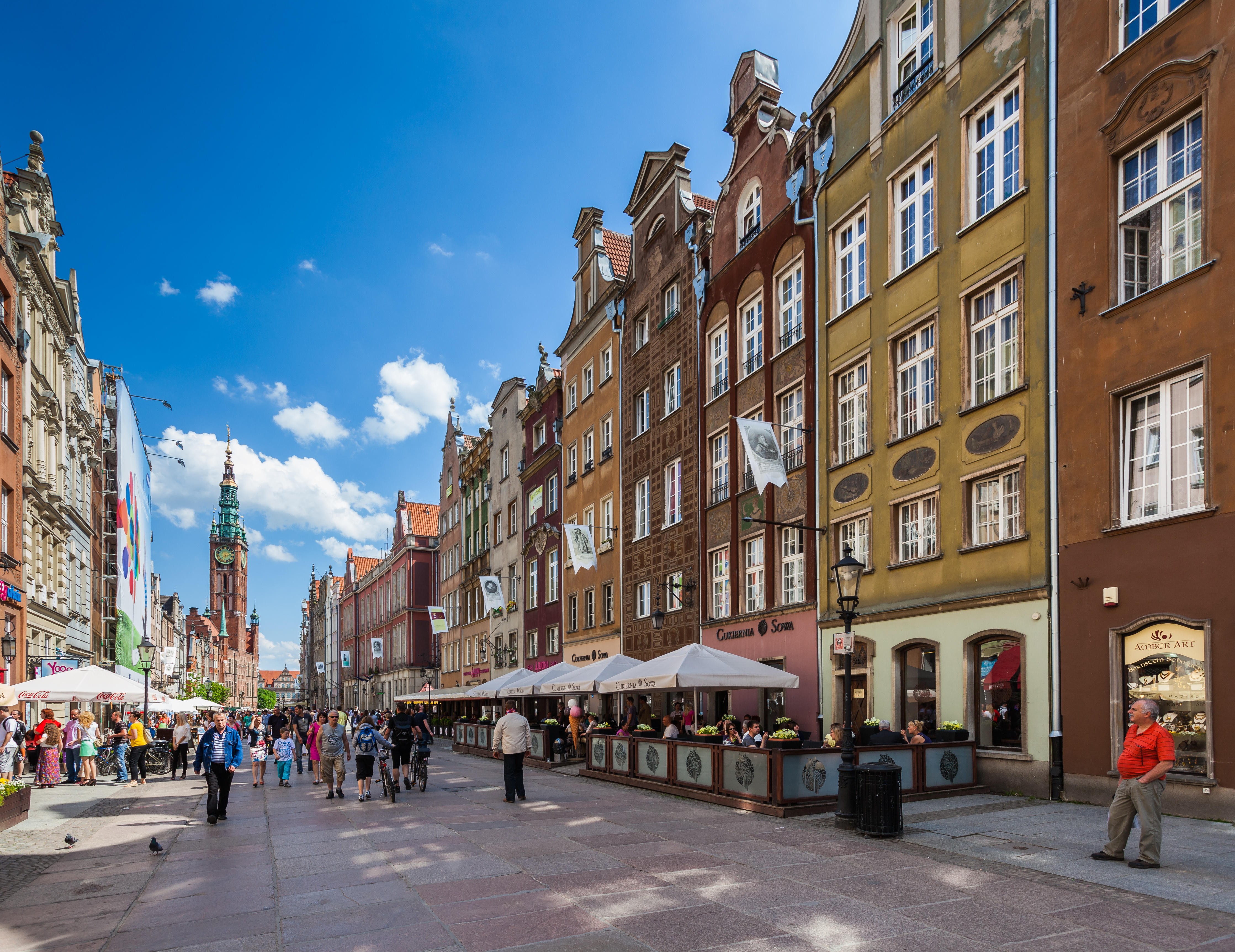 Main Town Hall, Gdansk, Poland 10.1959.